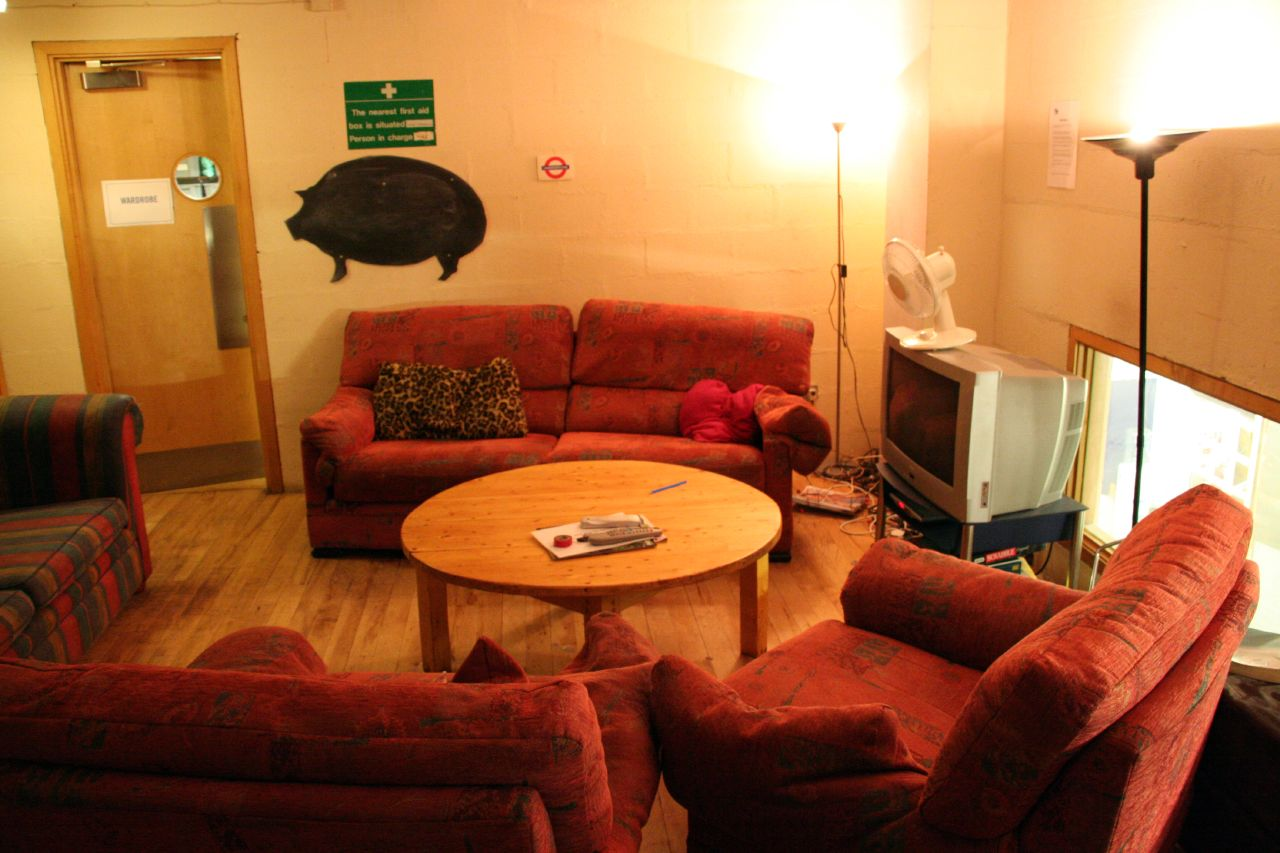 Green Room at the Traverse Theatre, Edinburgh Doors Open Day 2007